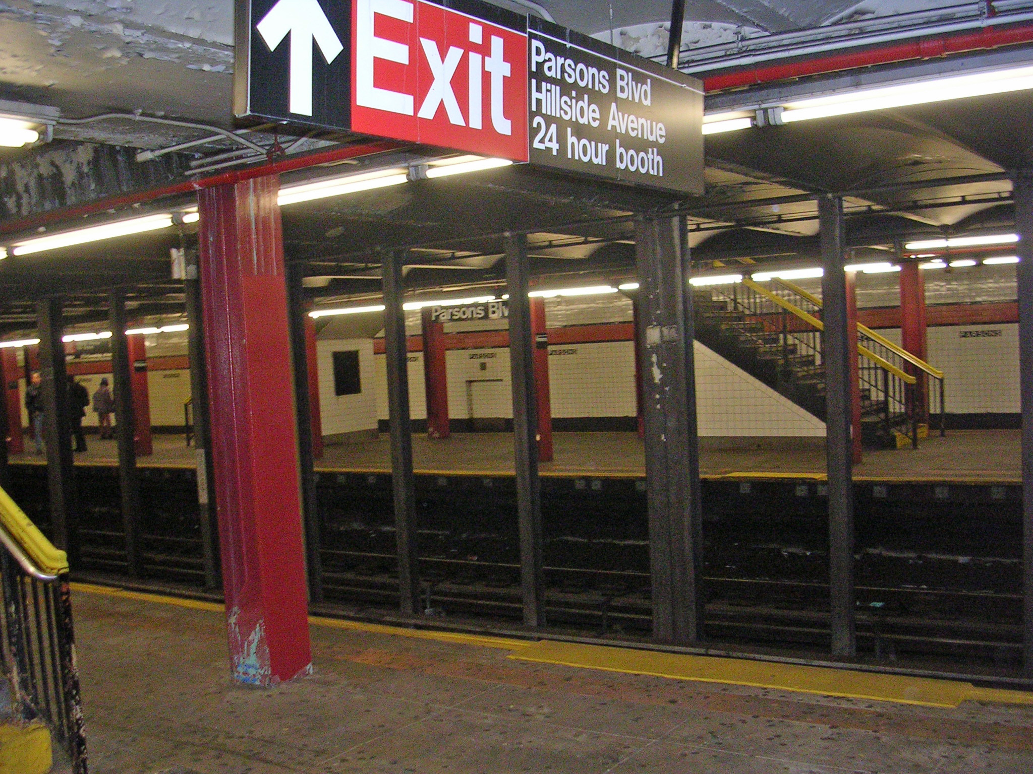 Parsons Blvd Subway Station by David Shankbone, January 15, 2007.